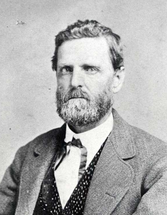 Gen. John Crawford Vaughn, from The Digital Library of Georgia. Vaughn served in the Mexican American War, participated in the California Gold Rush, and served as a Confederate General in the Civil War. After the Civil War Vaughn moved his family to Thomas County, Georgia from 1865-1870. He later moved back to his home state of Tennessee and was elected to the state general assembly. He returned to southern Georgia in 1874 and he died and was buried in Greenwood, Georgia in 1875.